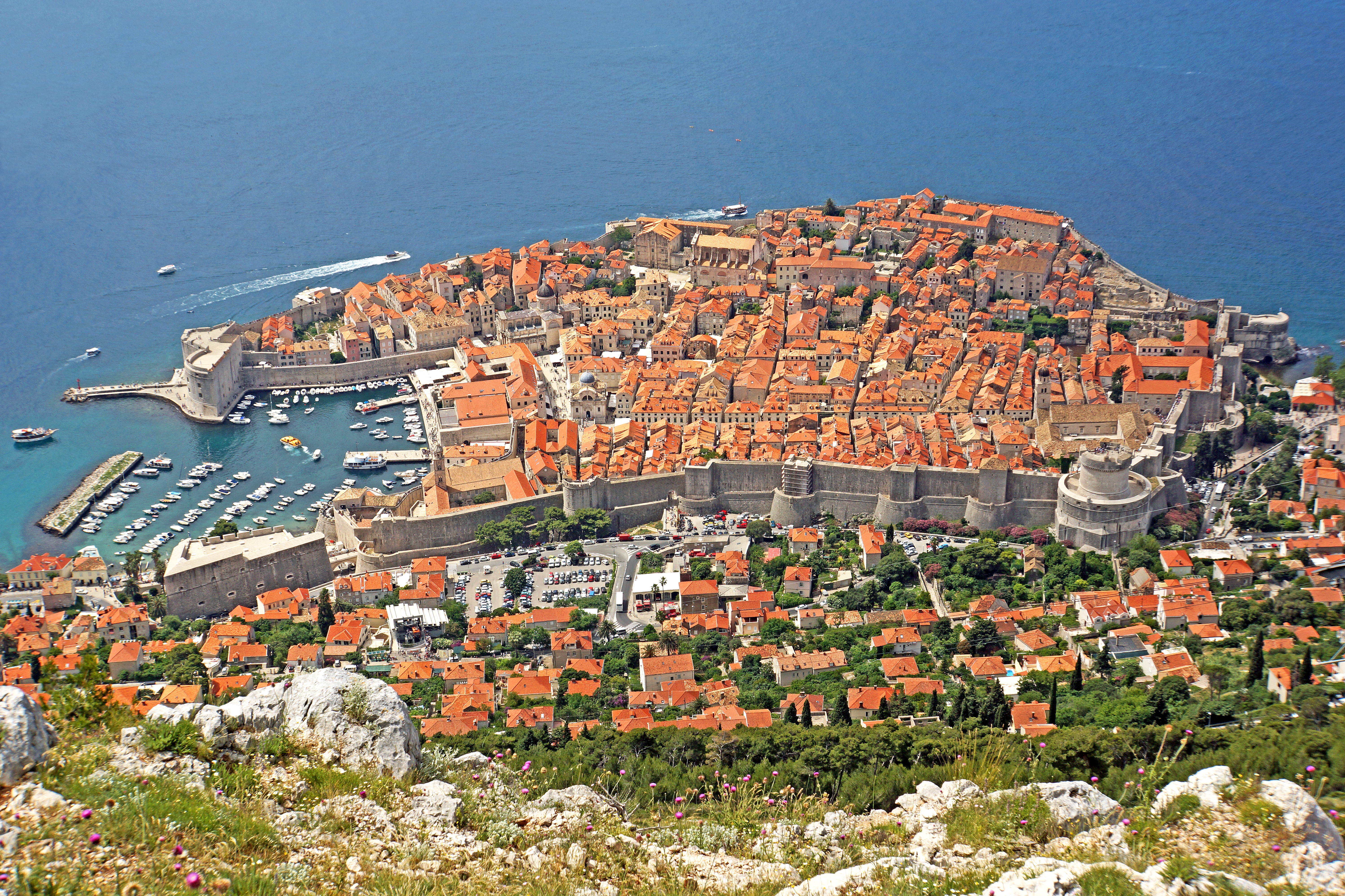 Fantastic views from the top of the hill, well worth the trip. I will be posting a few of these as I really enjoyed the views.